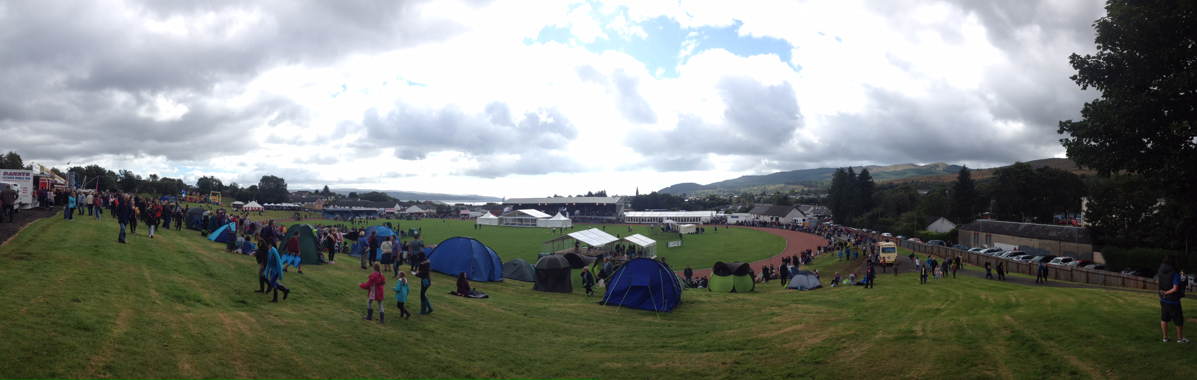 Panorama of Dunoon Stadium during the 2014 Cowal Highland Gathering